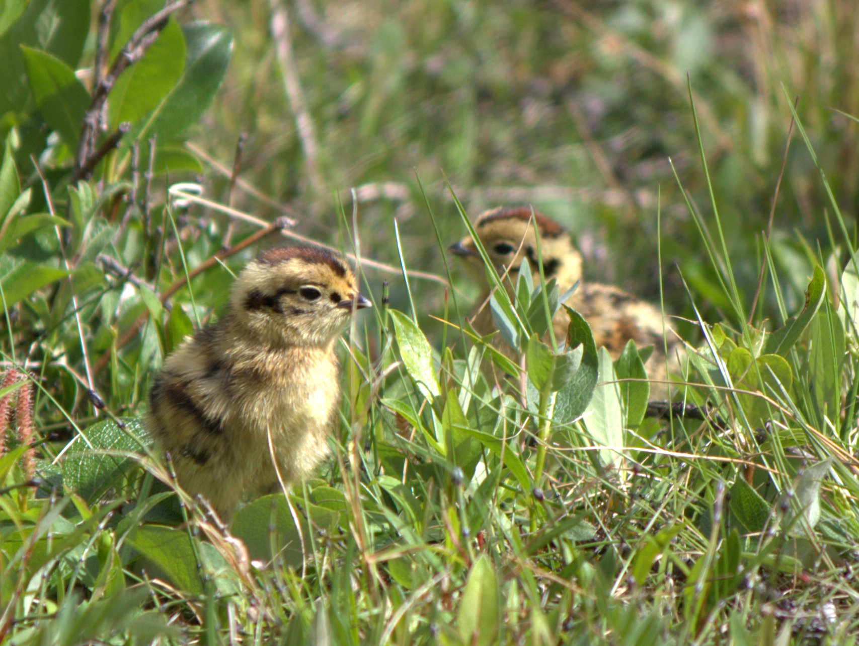 Willow ptarmigan chicks in Denali National Park and Preserve.